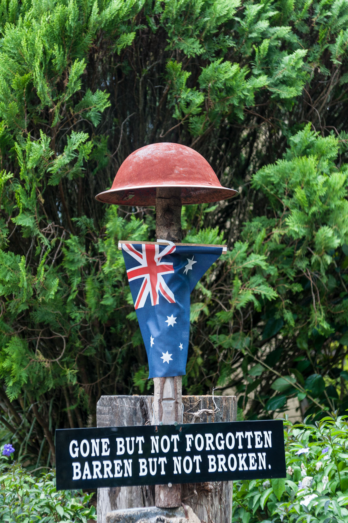 Kundasang, Sabah: The Kundasang War Memorial and Gardens; "Gone but not forgotten, barren but not broken"